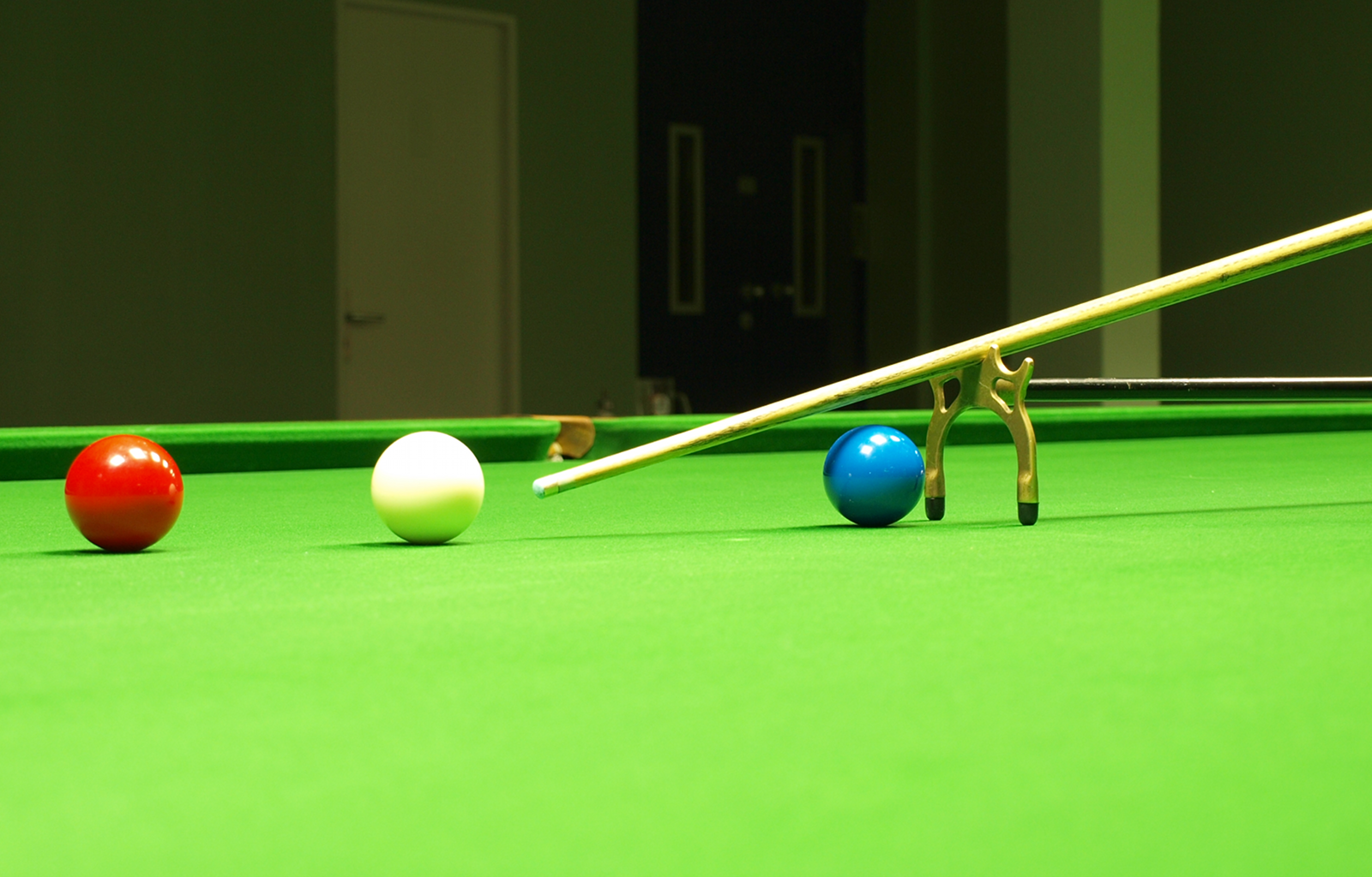 A rest or mechanical bridge called the spider for snooker and other cue sports.